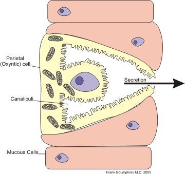 diagram of Oxyntic or parietal cell of stomach